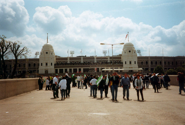 Twin Towers, Wembley Stadium Picture taken at the Plymouth Argyle v. Darlington 3rd Division Play-Off Final